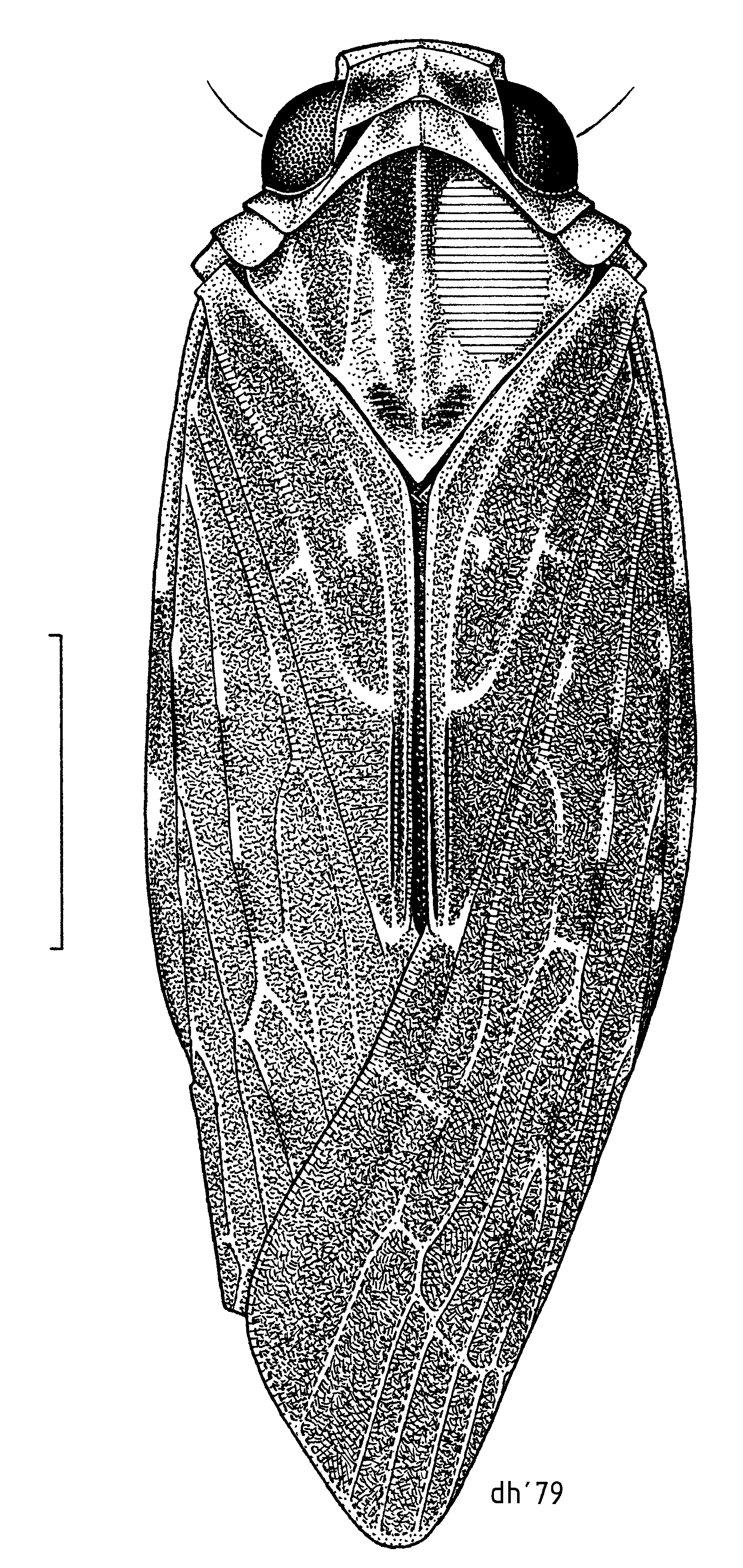 (Hemiptera: Achilidae) Agandecca annectans, male illustrated by Des Helmore. [The correct spelling is Agandecca annectens! ... ThorpeStephen (talk) 01:11, 24 September 2018 (UTC)]